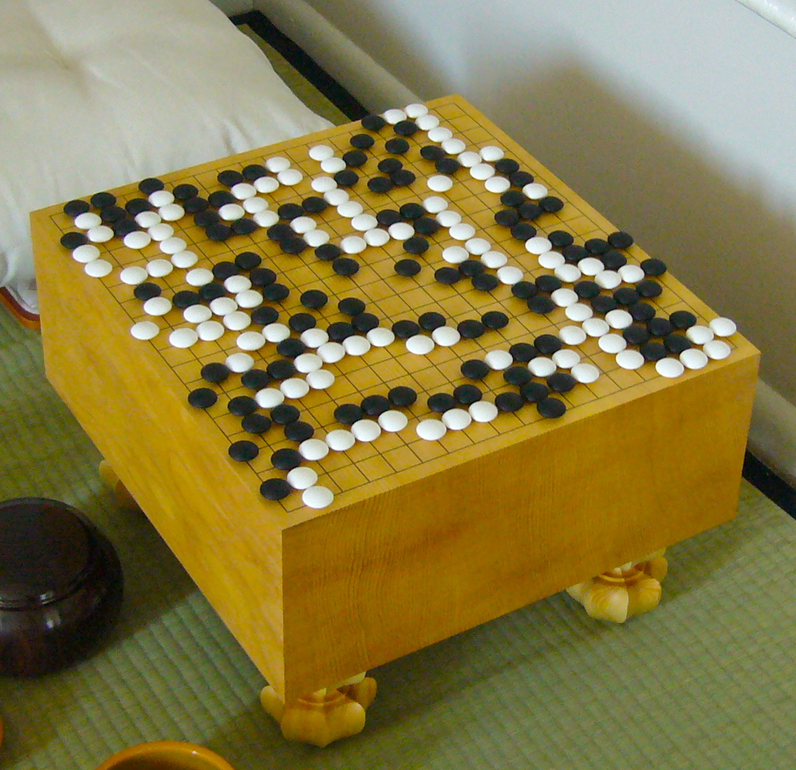 My floor goban with a game in progress.